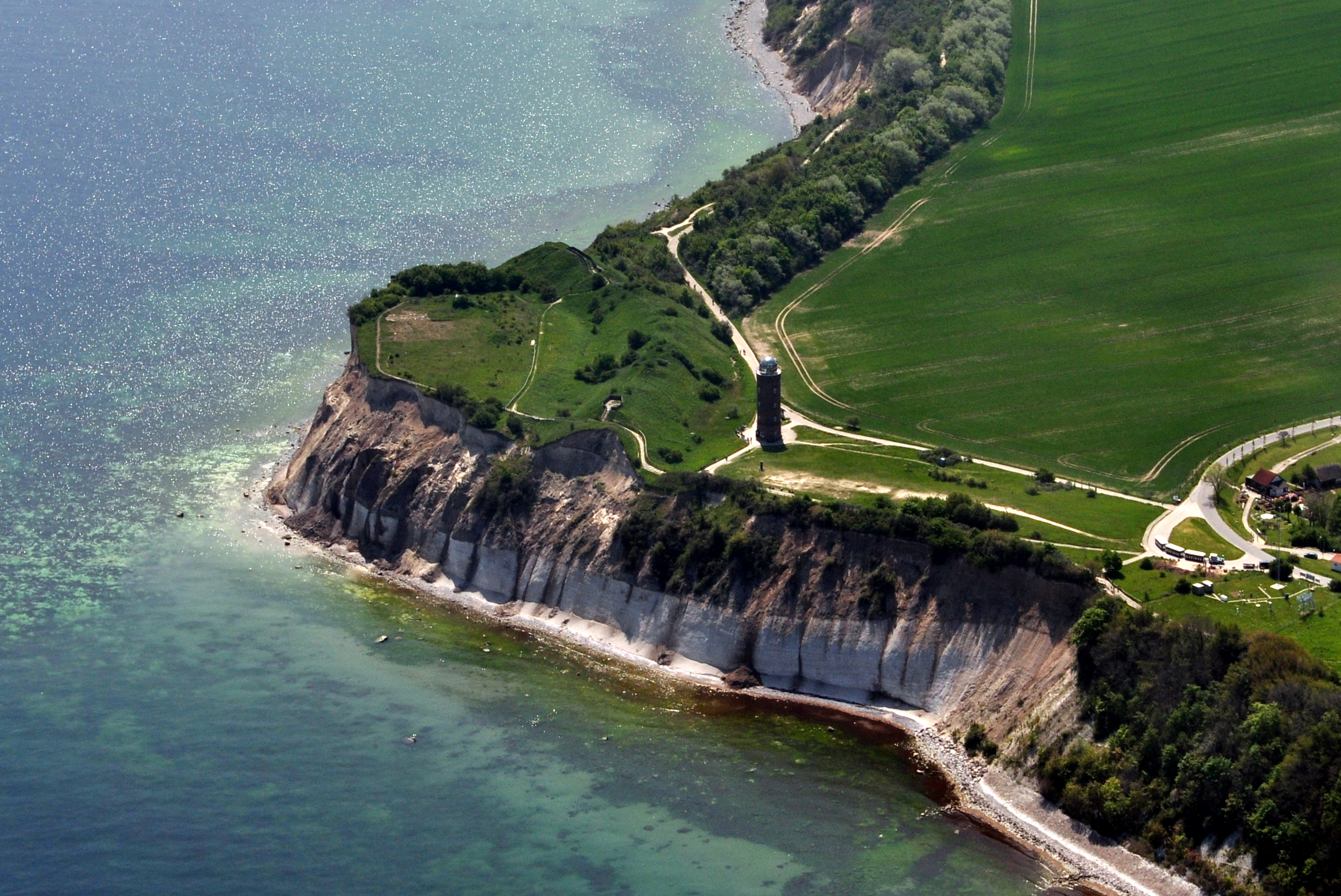 Putgarten, Kap Arkona. Photograph taken by me during a one-hour flight from Güttin, 21 May 2011.